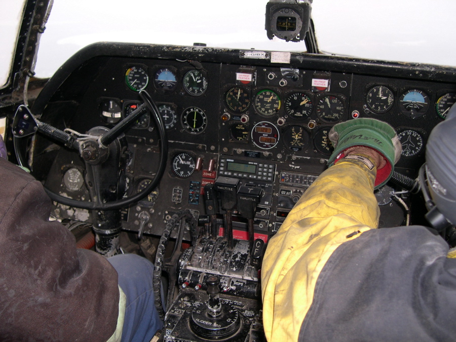 In-flight cockpit view of a Curtiss C-46 Commando transport aircraft.